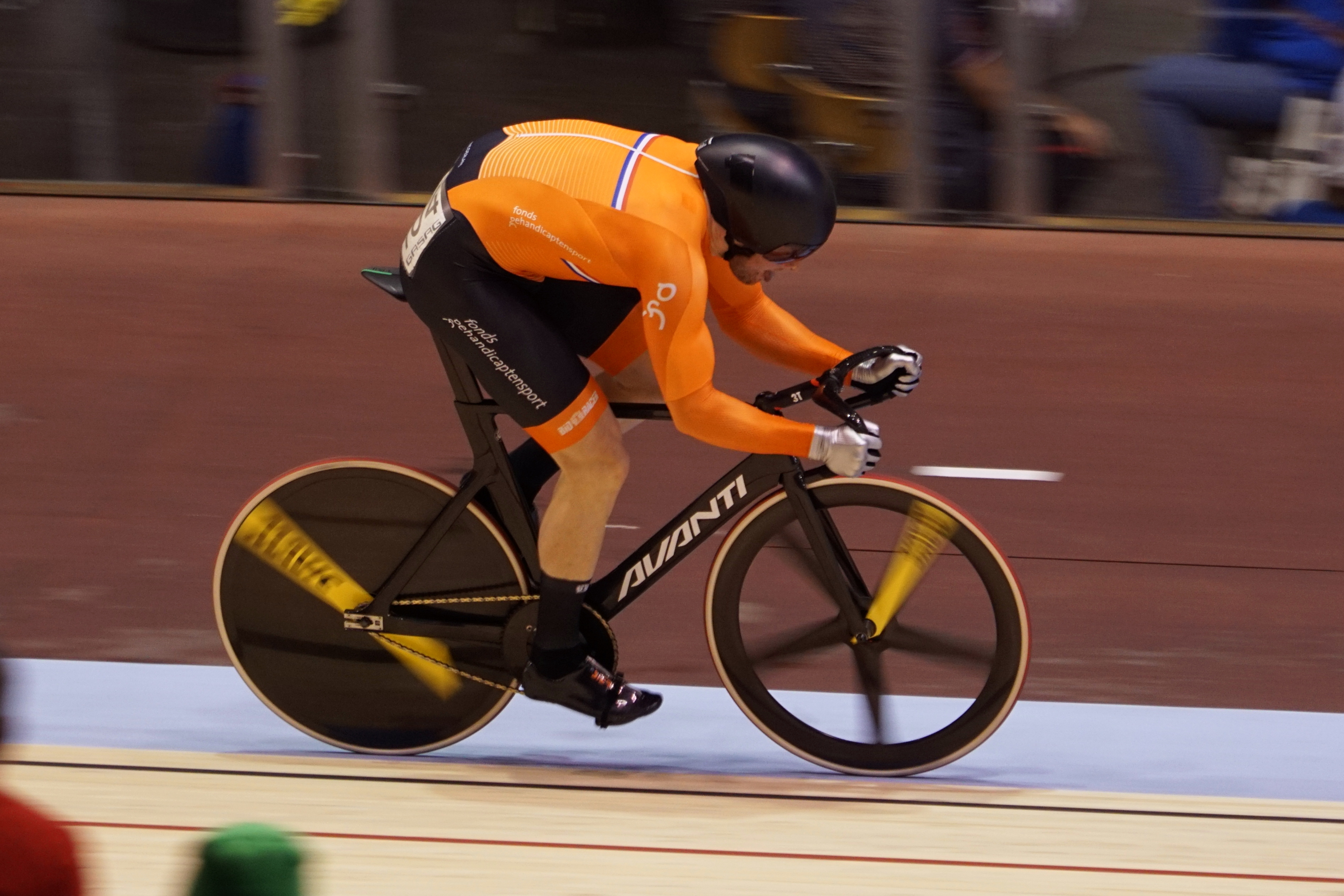 2017 UEC Track Elite European Championships – Men's Keirin Final for 7-12 (6 laps)